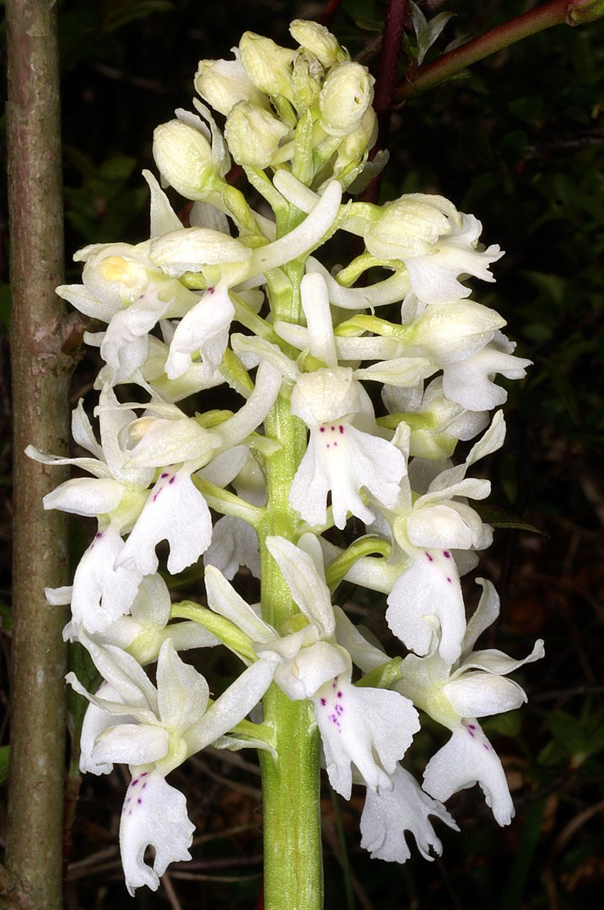 Orchis mascula